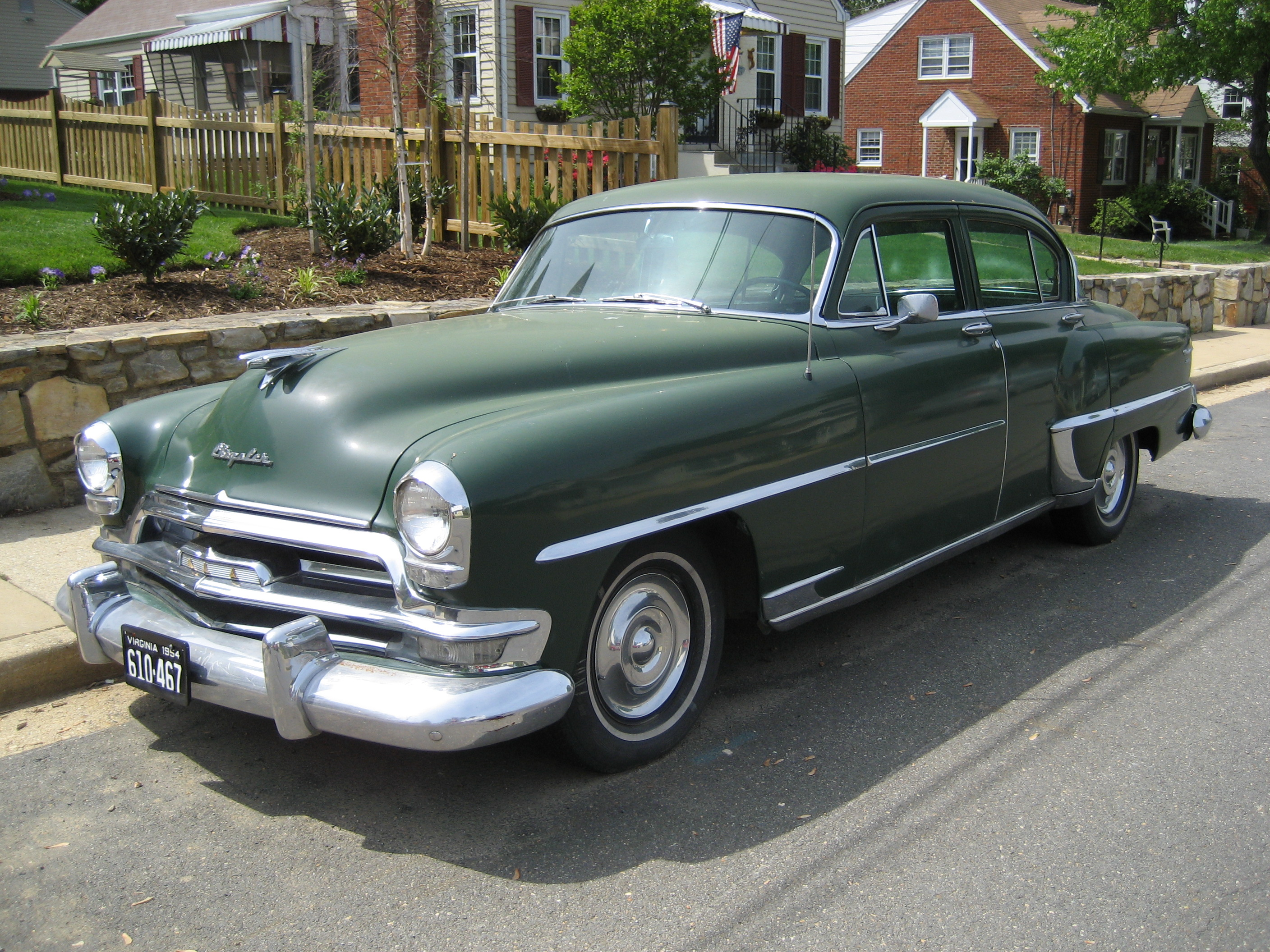 1954 Chrysler Windsor Deluxe photographed in Arlington, Virginia.